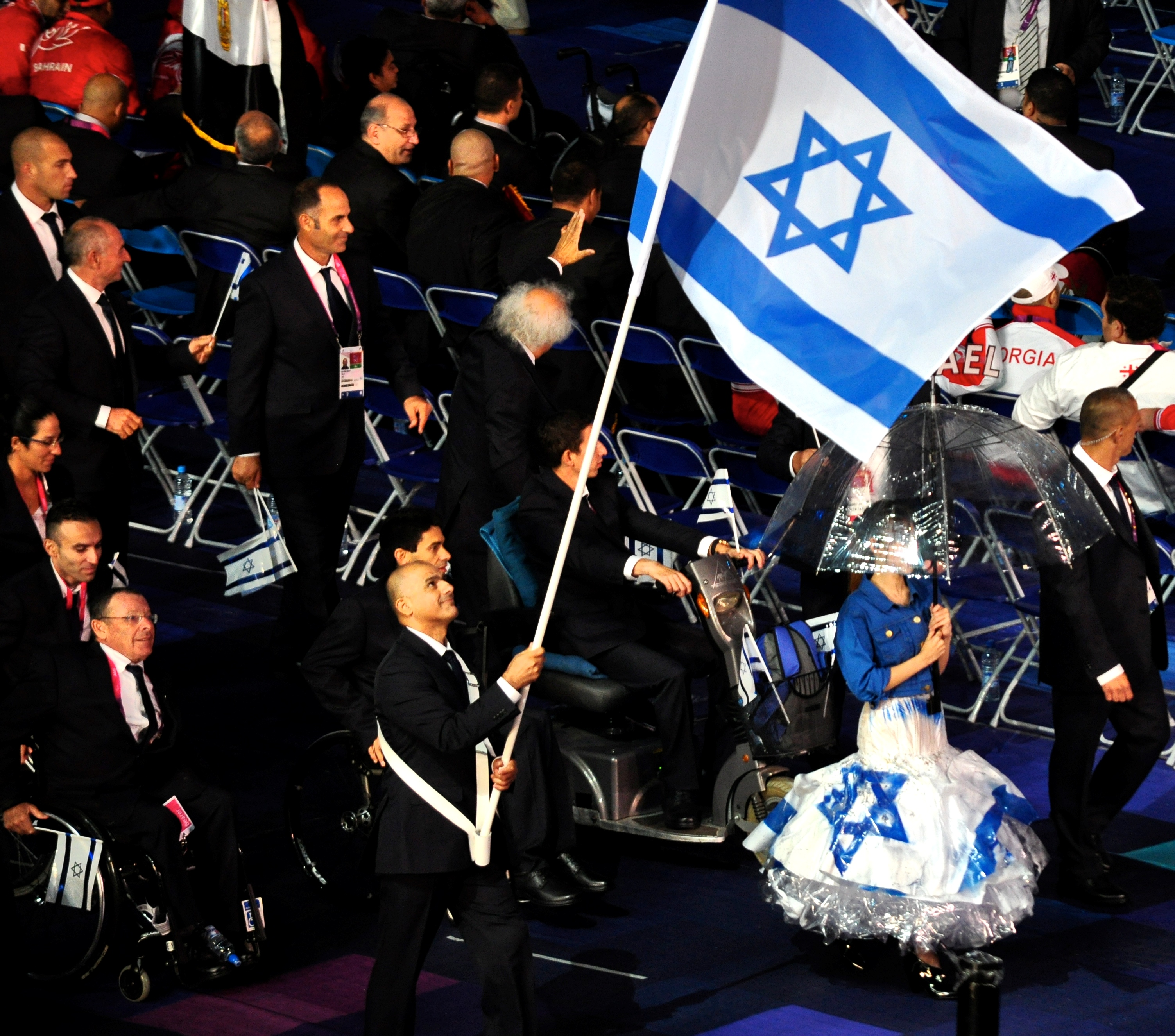 Israel Paralympic team at the London 2012 Opening Ceremony.jpg